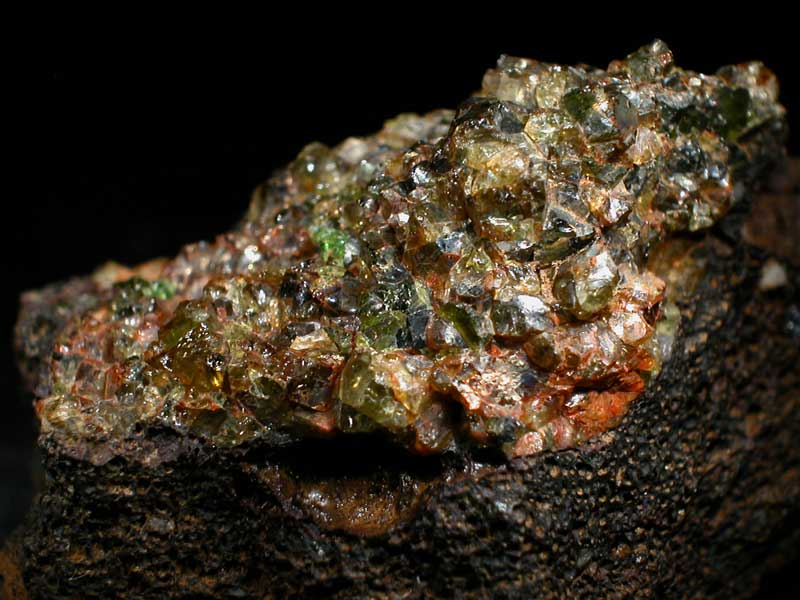 Faylite crystal